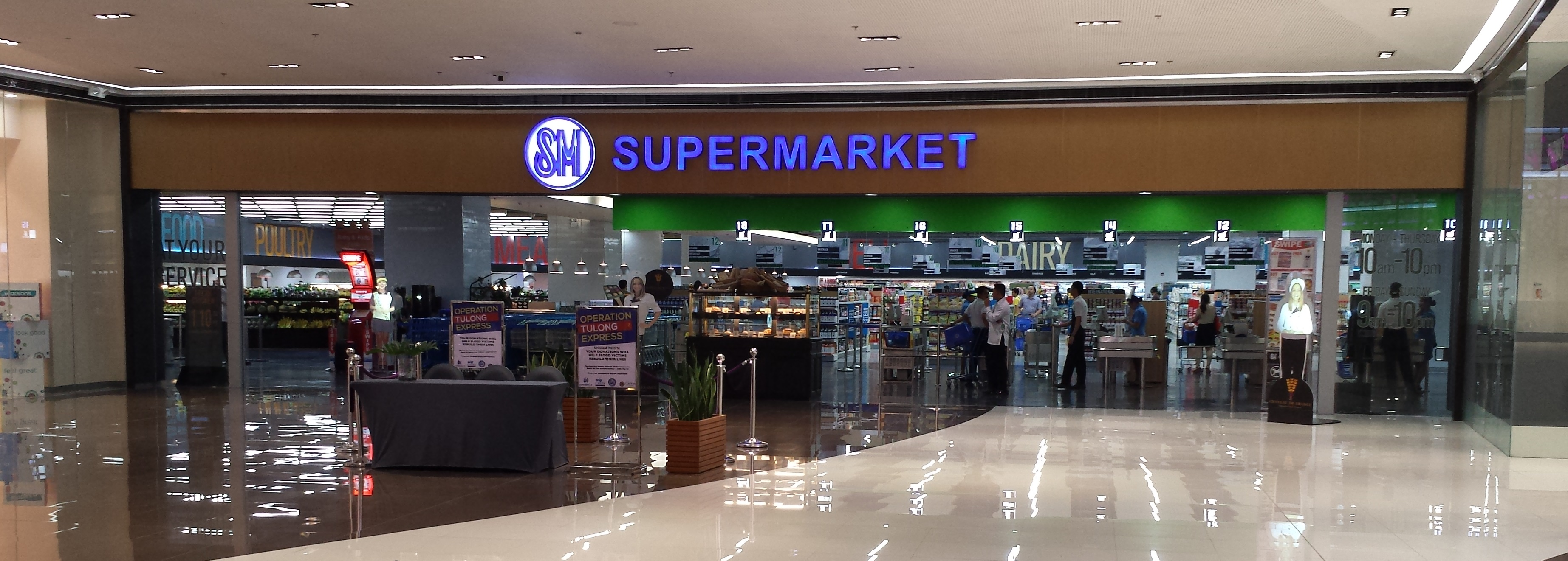 SM Supermarket in the SM Aura mall in Bonifacio Global City, Metro Manila, Philippines